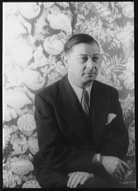 Title: Portrait of Moïse Kisling Abstract/medium: 1 photographic print : gelatin silver.